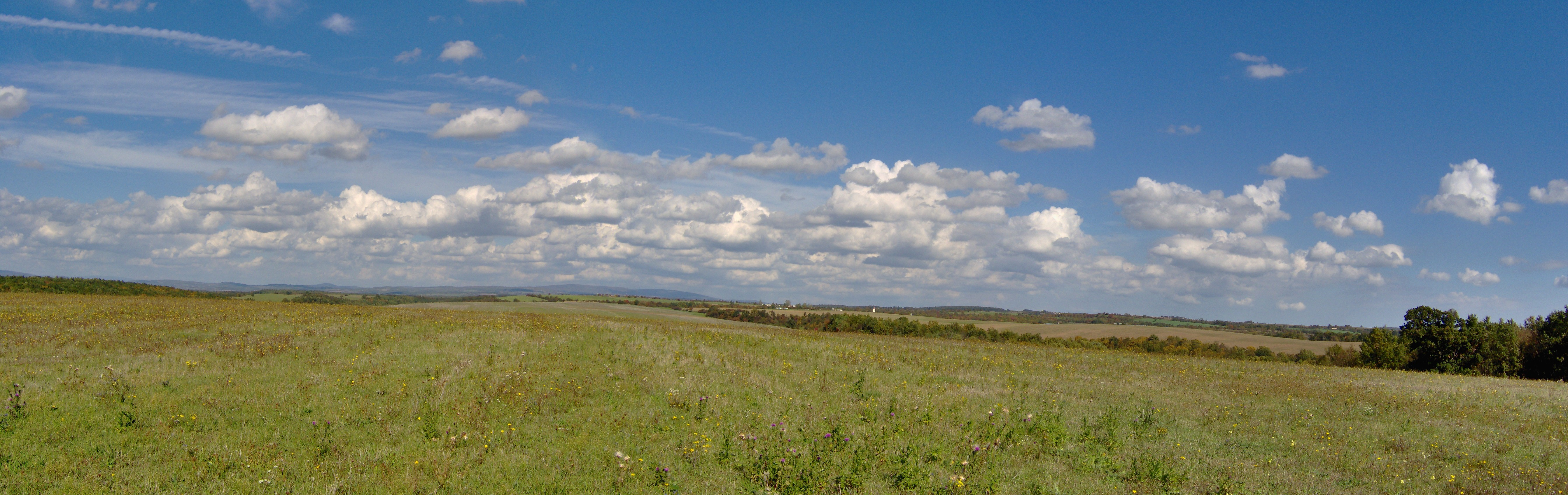 Cerovo